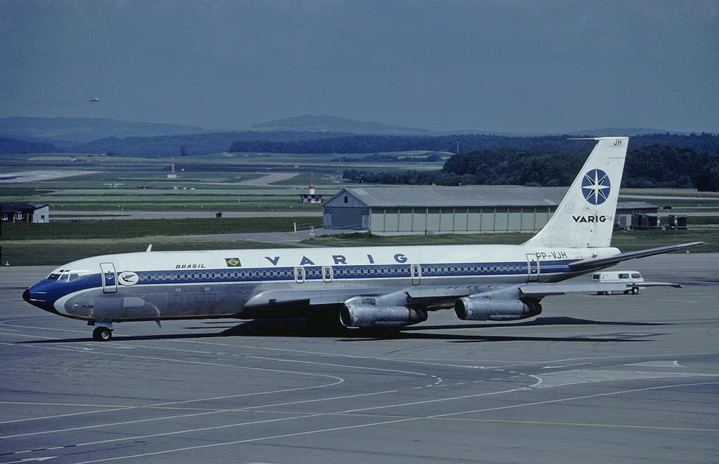 A Varig Boeing 707-320C at Zürich Airport (ZRH / LSZH)